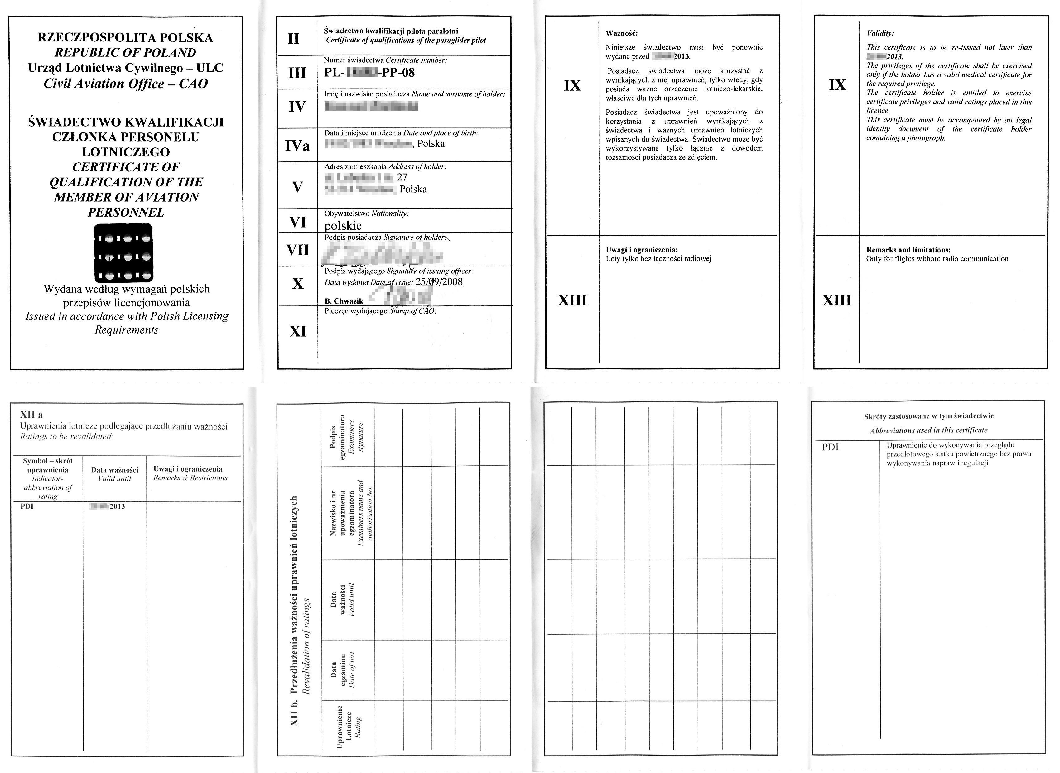 Certificate of qualifications of the paraglider pilot